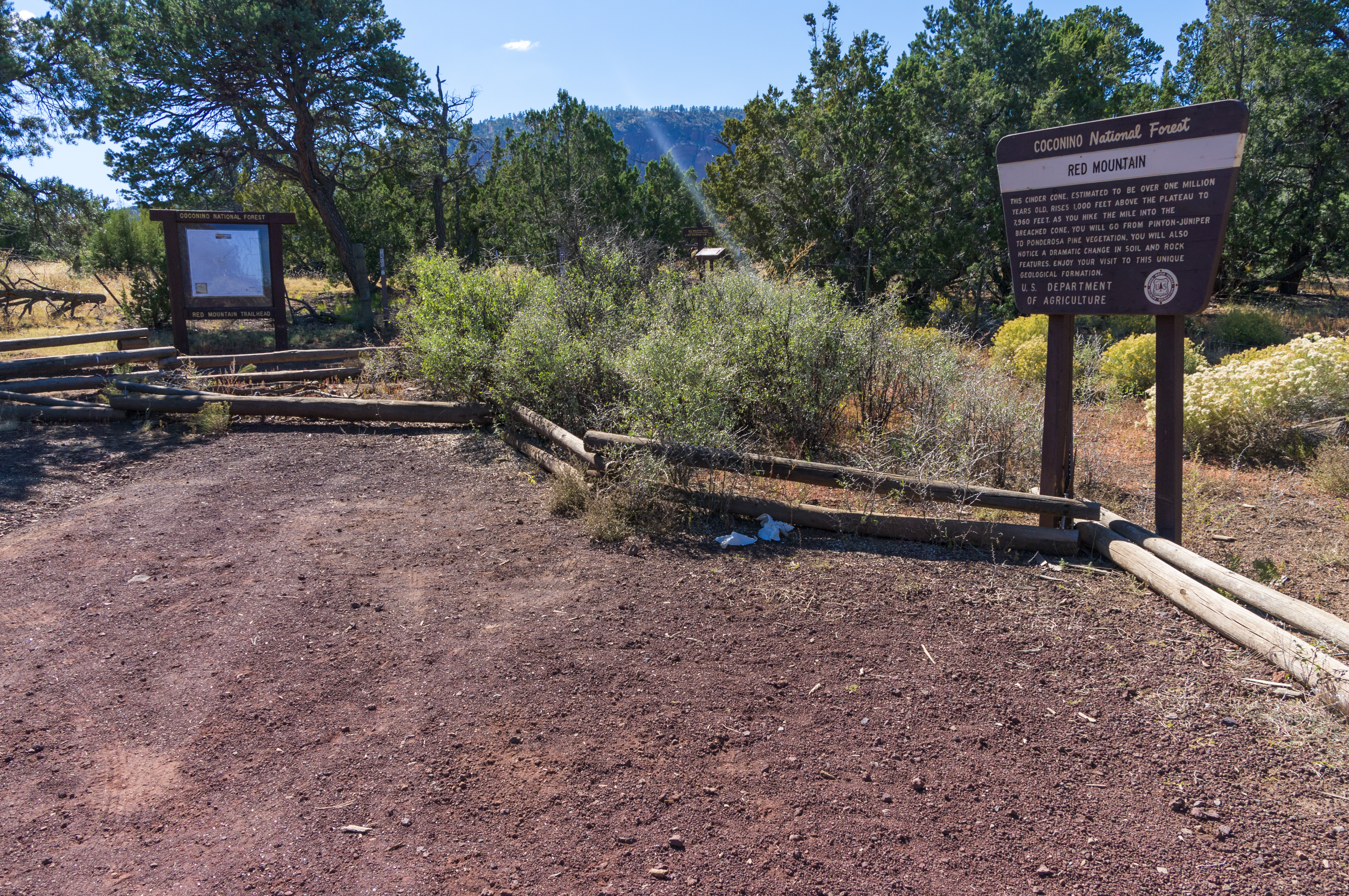 Trailhead, Red Mountain in the background. Red Mountain is a volcanic cinder cone that rises 1,000 feet above the surrounding landscape. It is unusual in having the shape of a "U," and in lacking the symmetrical shape of most cinder cones. In addition, a large natural amphitheater cuts into the cone's northeast flank. Erosional pillars called "hoodoos" decorate the amphitheater, and many dark mineral crystals erode out of its walls. Studies by U.S. Geological Survey (USGS) and Northern Arizona University scientists suggest that Red Mountain formed in eruptions about 740,000 years ago. The trailhead is located on U.S. Highway 180, 25 miles northwest of Flagstaff, Arizona. The trail is an easy 1.5 miles through open terrain with fantastic views of the San Francisco Peaks and surrounding San Francisco Volcanic Field. There is a short (approximately 6 feet) ladder climb required just before entering the natural amphitheater of the cinder cone. Photo by Deborah Lee Soltesz, October 2010. Credit: U.S. Forest Service, Coconino National Forest. For more information about this trail, see the trail description on the website.